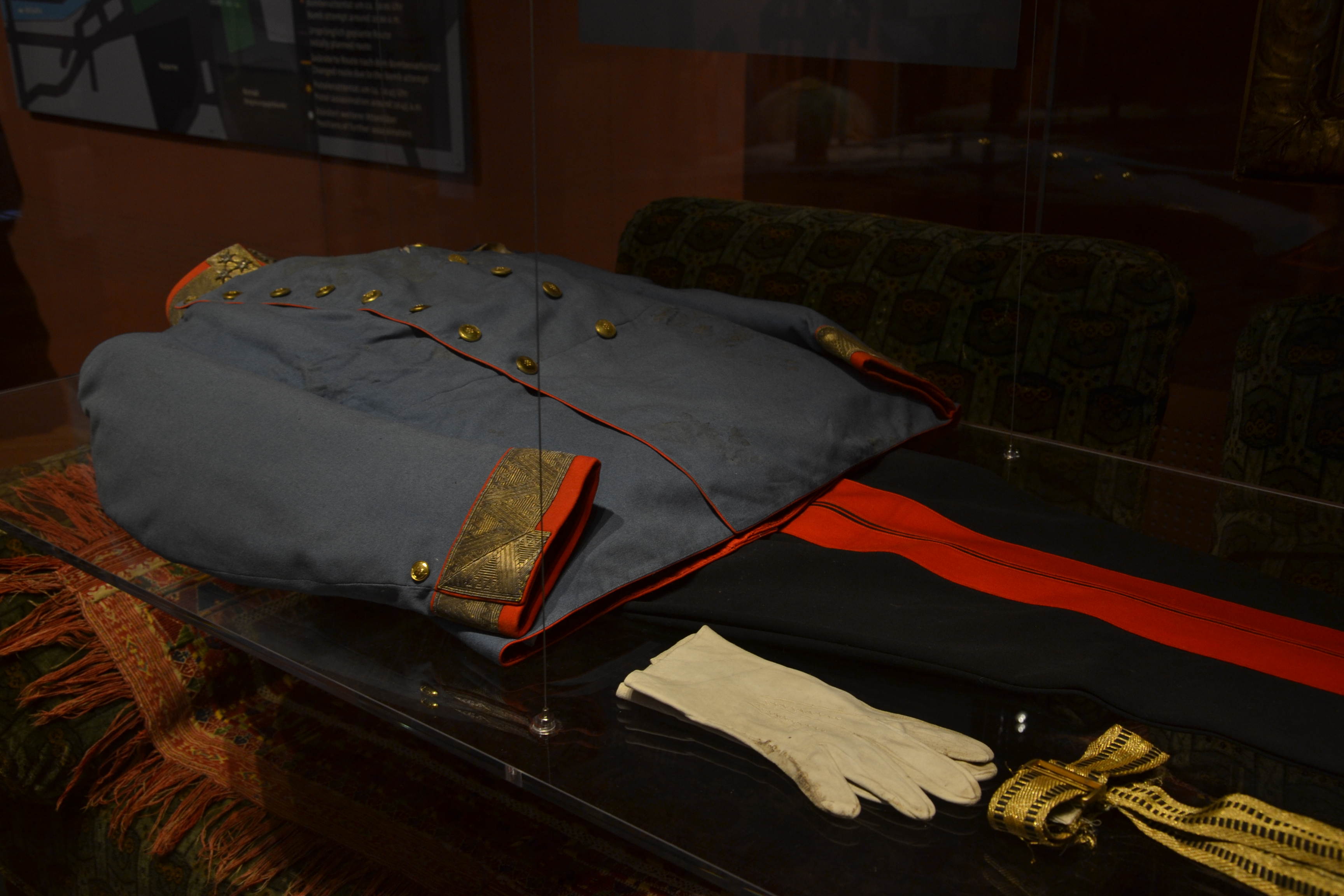 Heeresgeschichtliches Museum Wien - deathbed and uniform of Archduke Franz Ferdinand